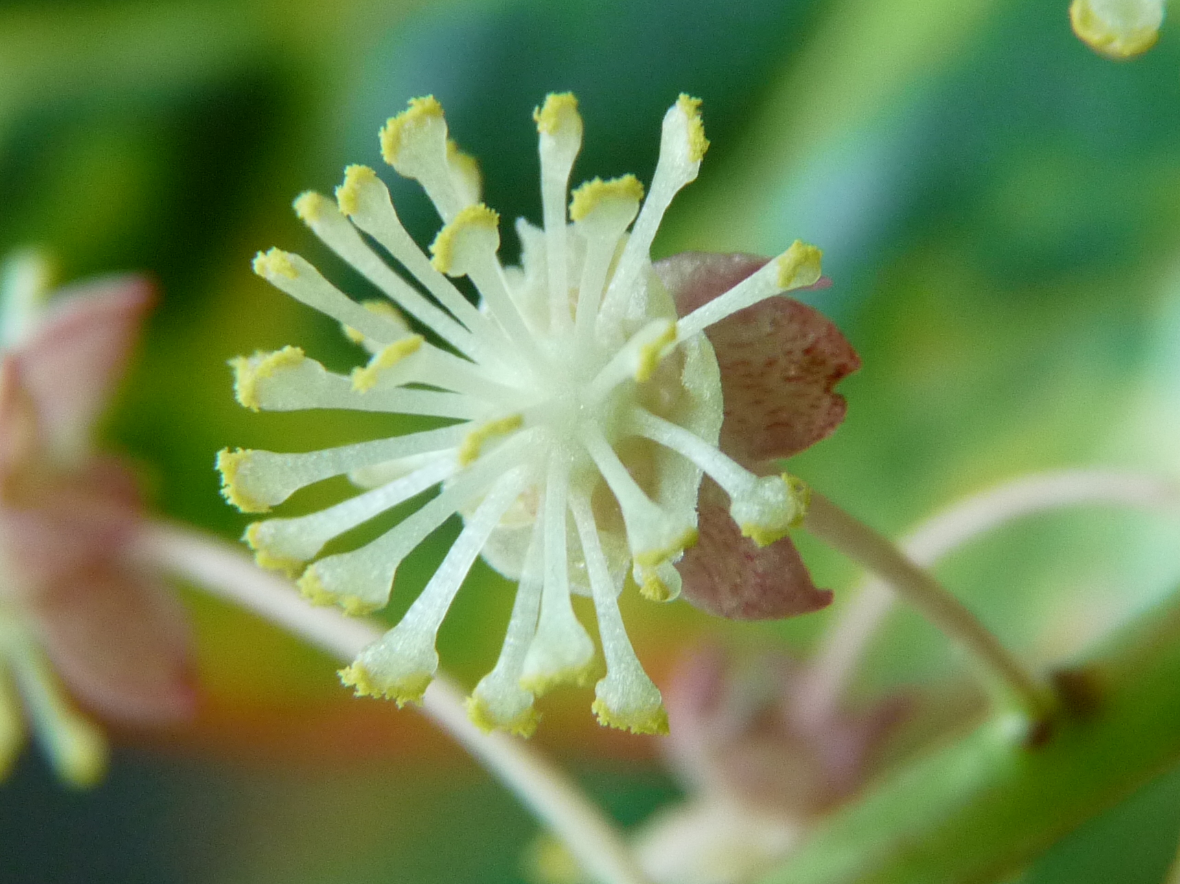 Codiaeum variegatum, male flower Place: Poland, Mielec